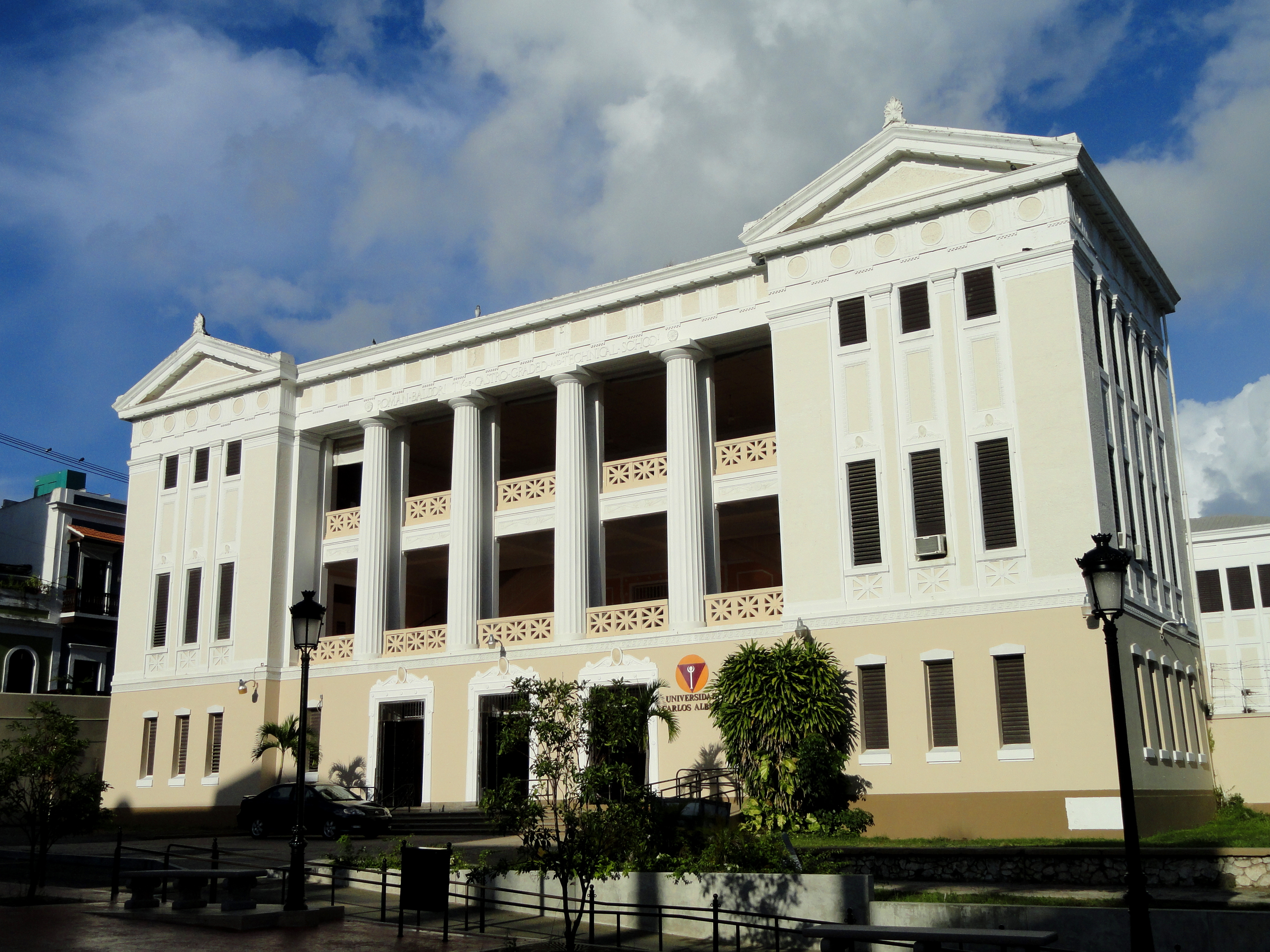 Carlos Albizu University (San Juan Campus), Old San Juan, Puerto Rico.